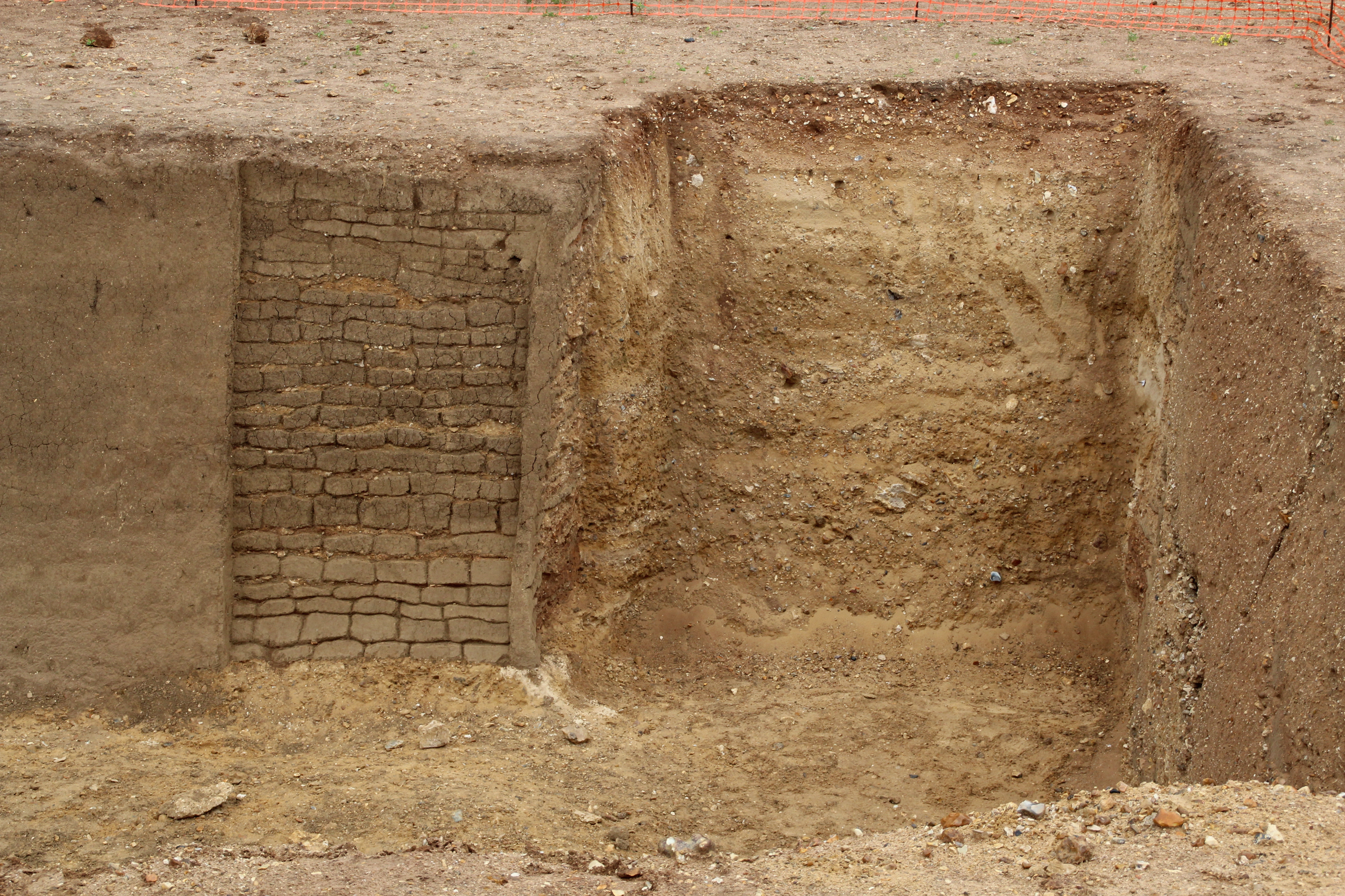 The Fort St. Sebastian was a fort for the training of the armies of Louis XIV for siege warfare (defending and taking strongholds). It was used for two years (1669 and 1670) and then leveled.